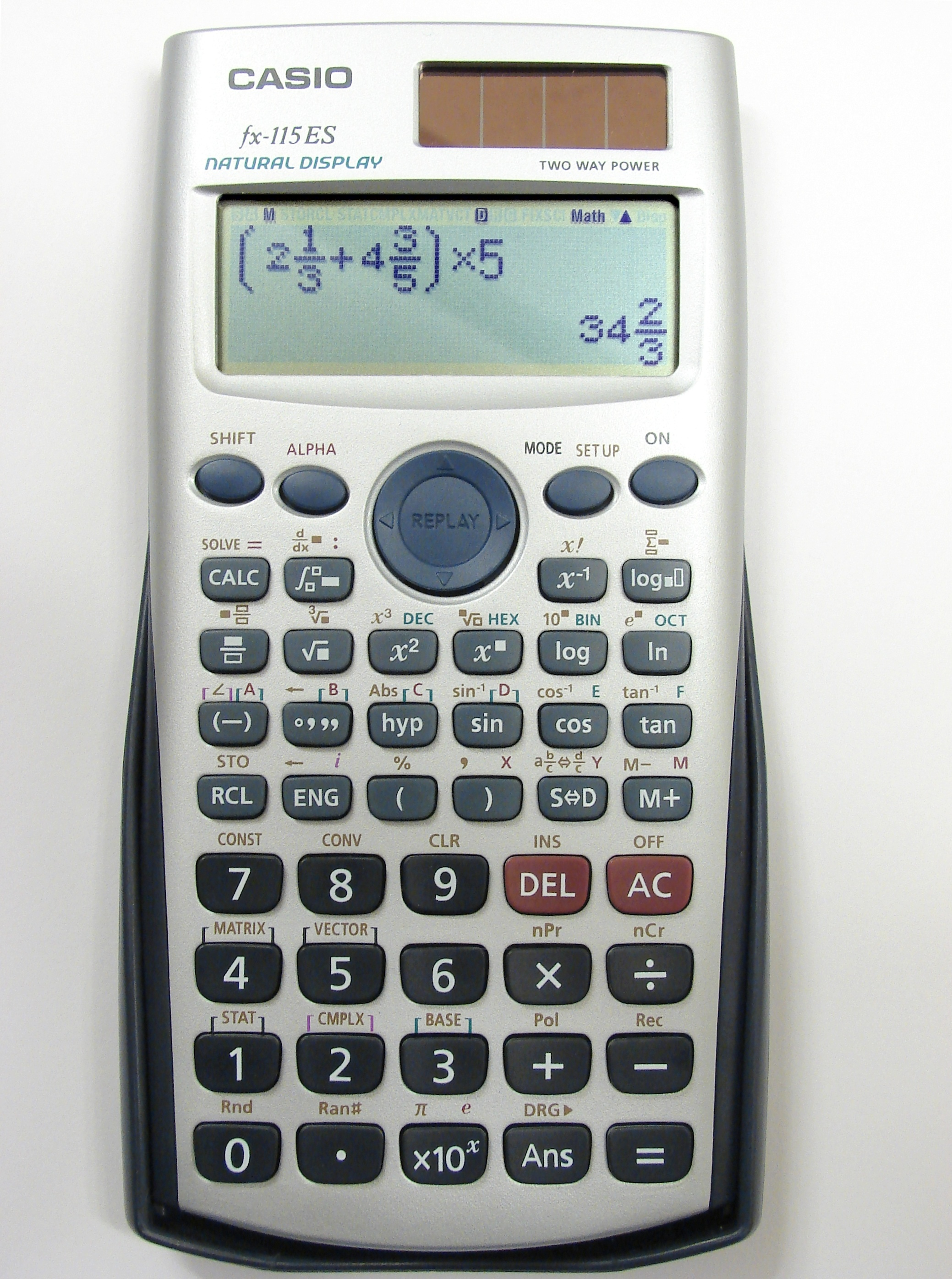 Casio fx-115ES scientific calculator.